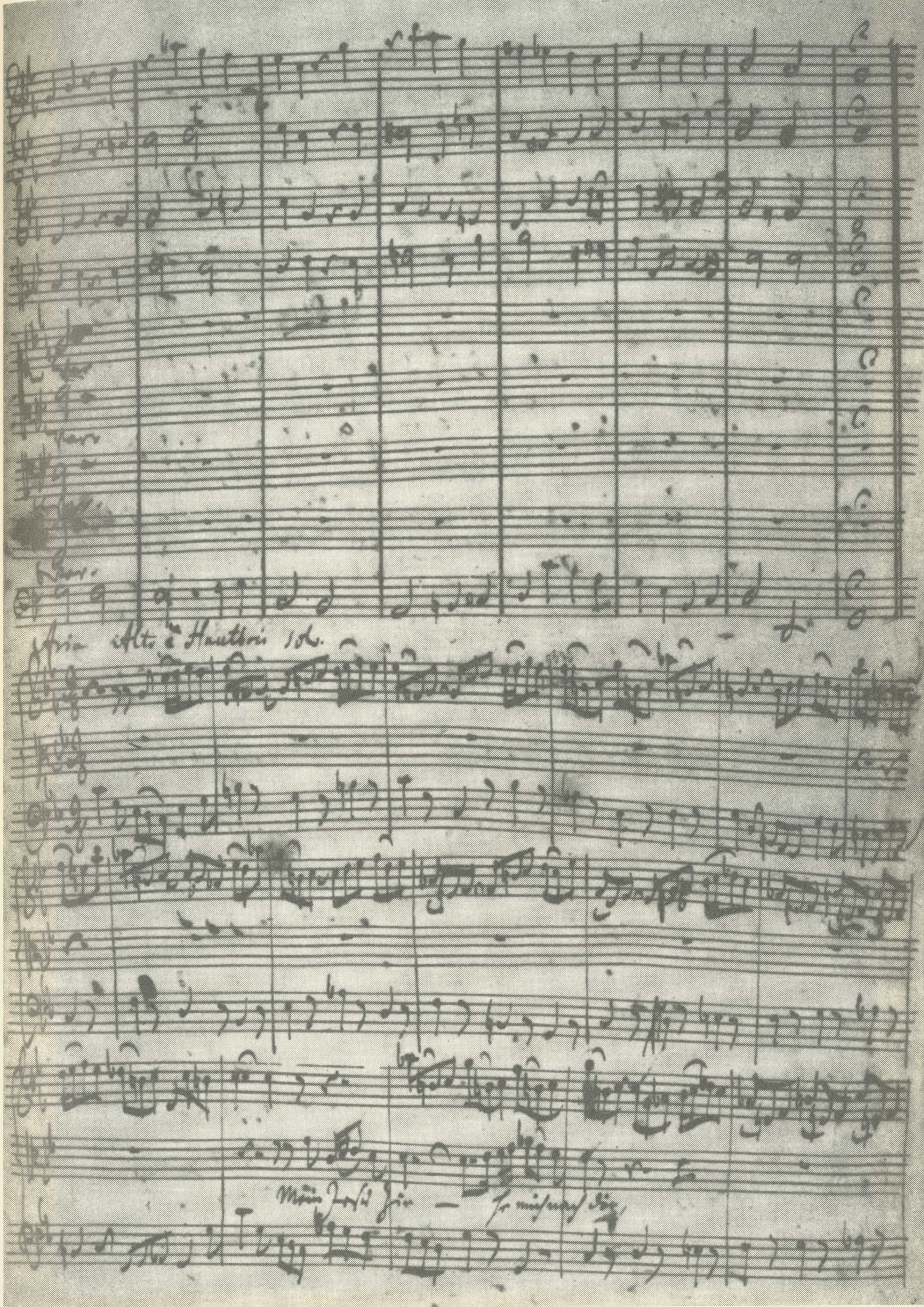 A page from the manuscript of the cantata "Jesus nahm zu sich die Zwölfe", BWV 22, by Johann Sebastian Bach. The end of the 1st part + beginning of the 2nd (Aria for alto, oboe and cello/continuo). Original preserved in Staatsbibliothek zu Berlin, Preussischer Kulturbesitz, Mus. ms. Bach P 119. Original size 36x23 cm.